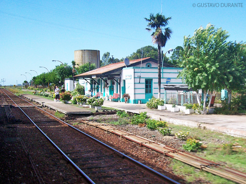 Gándara Train Station